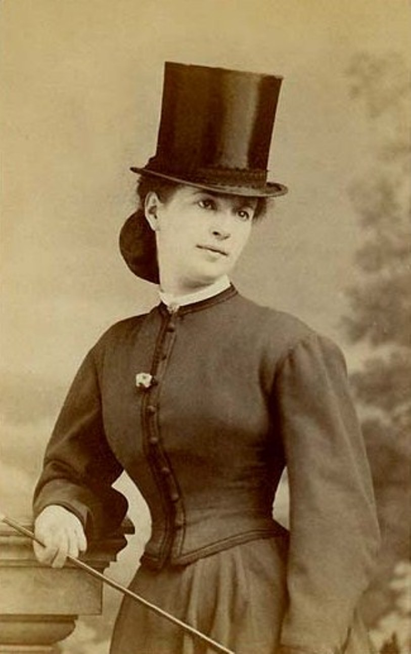 Marguerite Bellanger (10 June 1838 - 23 November 1886) was a French actress and courtesan, born Julie Lebœuf.